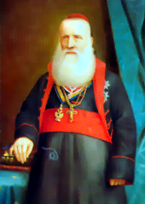 Andrei Şaguna, bishop of the Romanian Orthodox Church